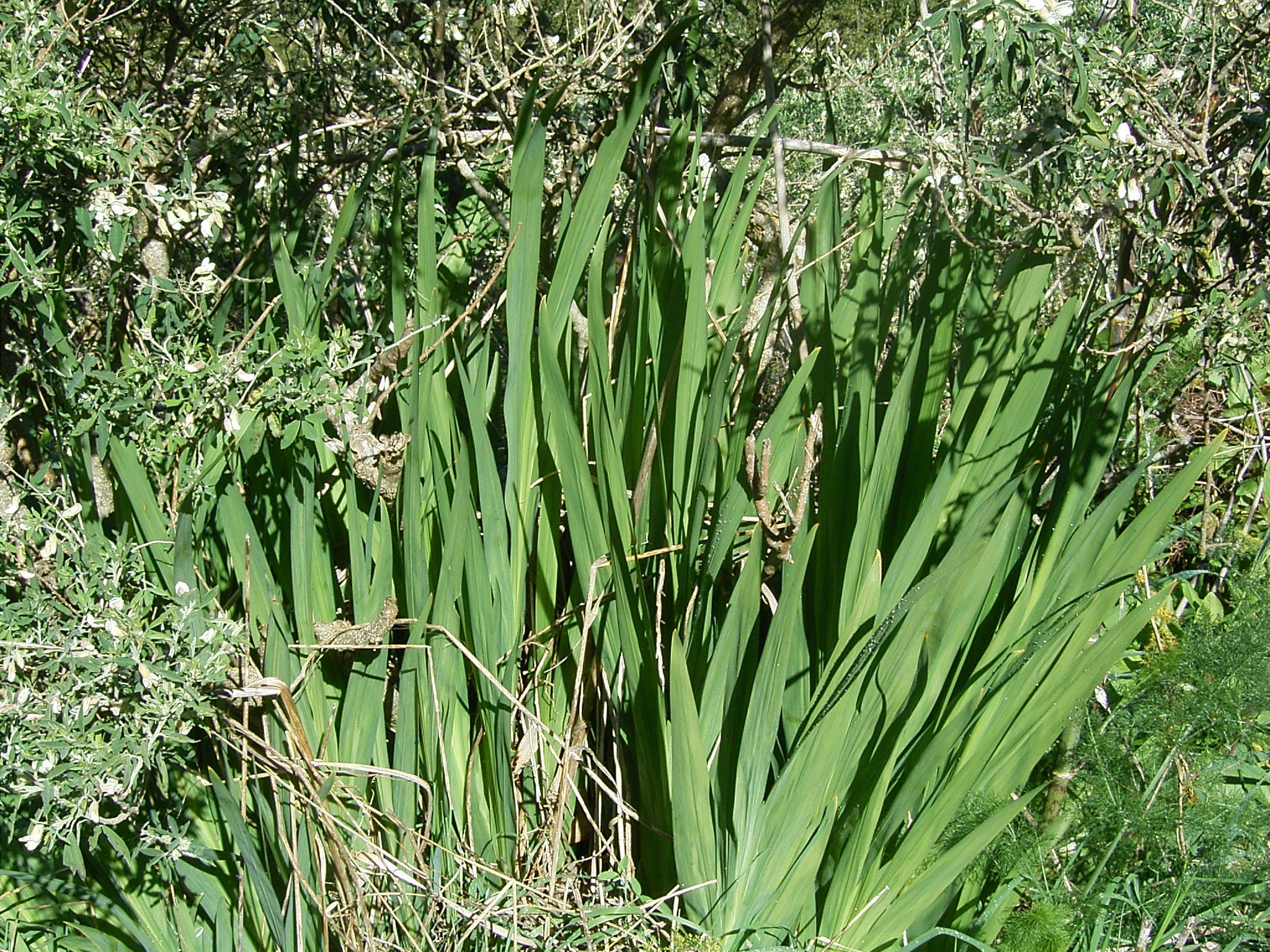 Chasmanthe aethiopica growing in Garafía, La Palma, Canary Islands